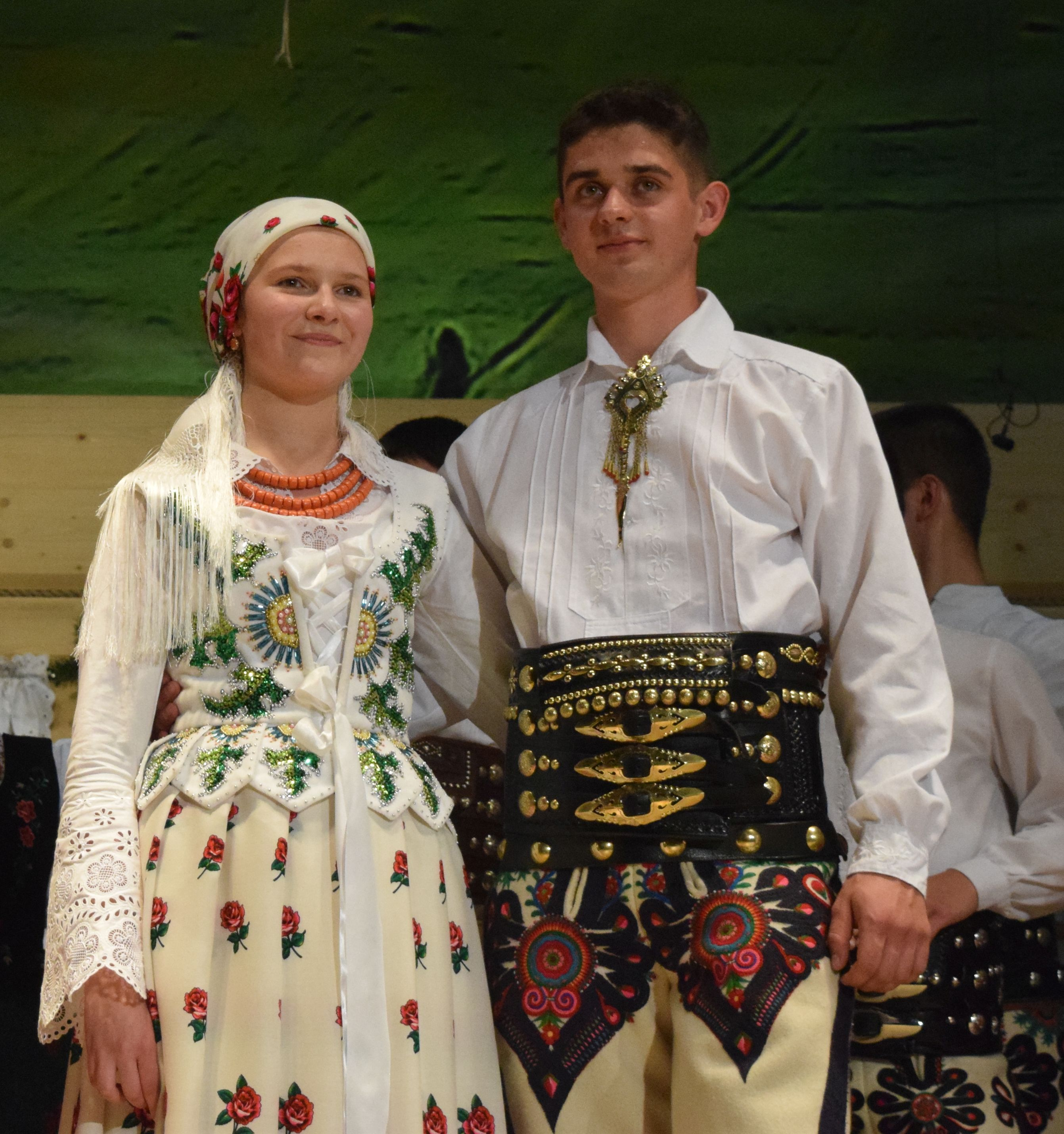 Members of the 'Wiyrchowianie' folklore group in Podhale costume